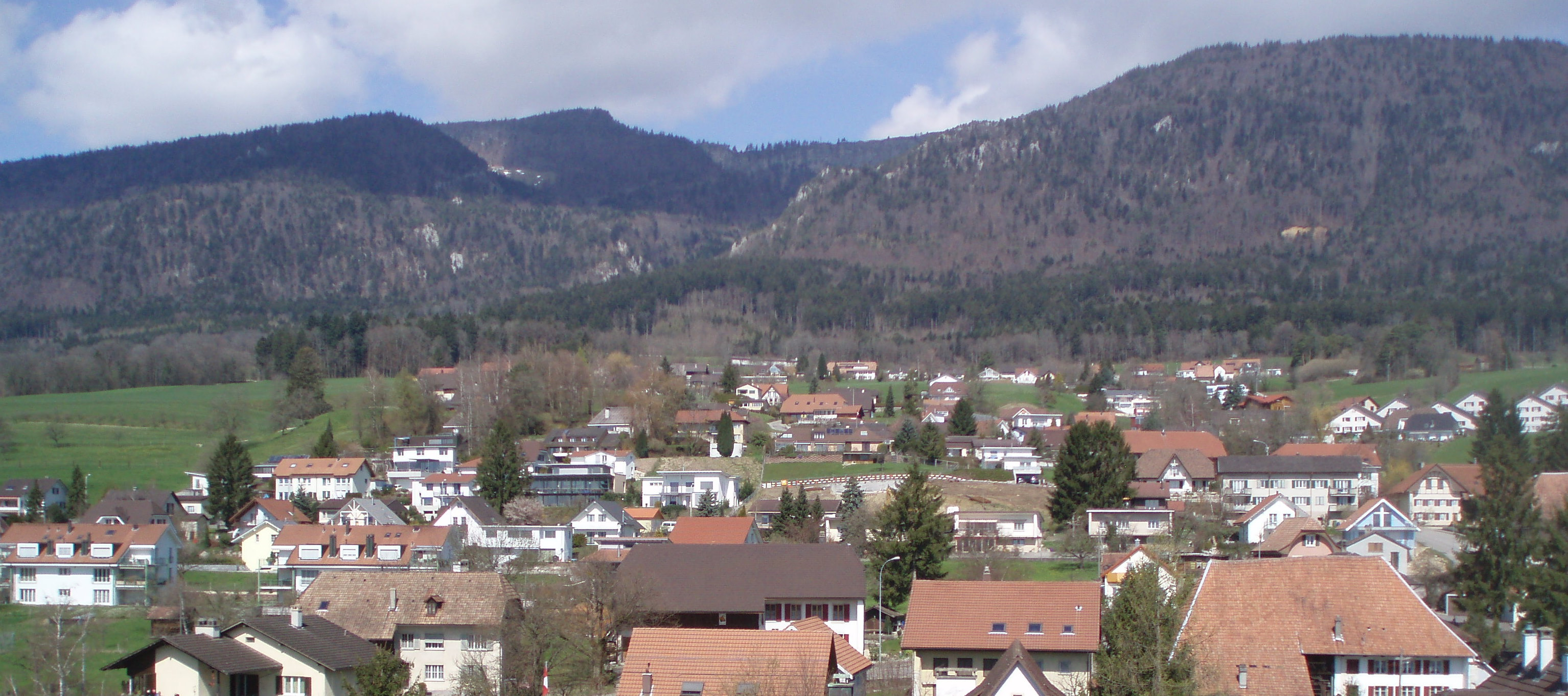 View to Bettlachberge/Switzerland